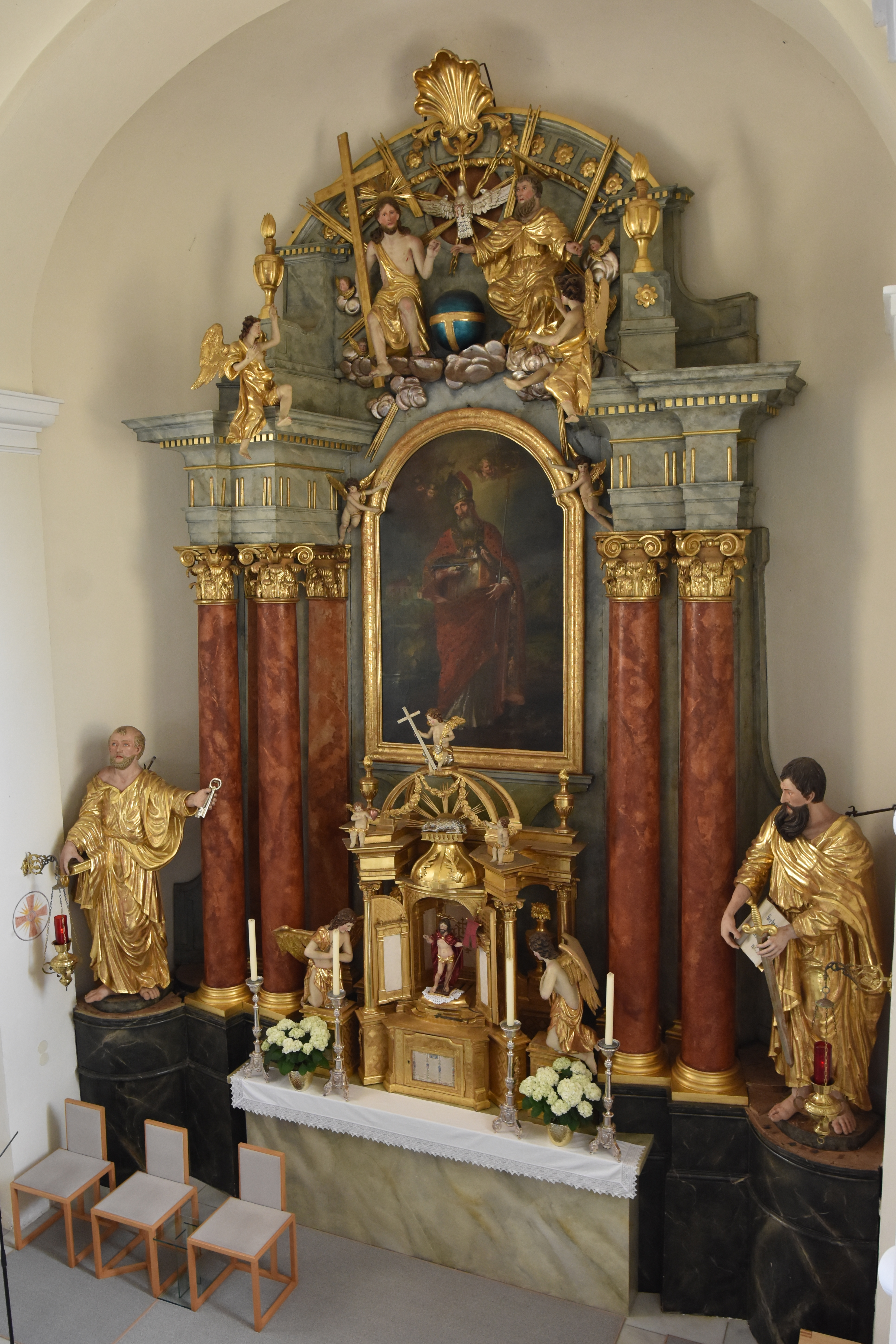 Church St. Ulrich in Greith, Kopreinigg - Interior